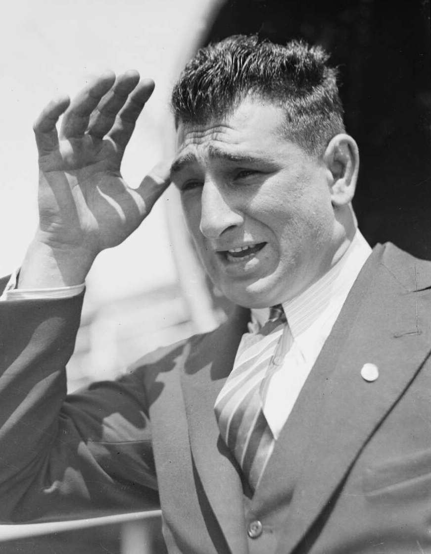 Wrestler Eddie Scarf with hand on brow, New South Wales, ca. 1930